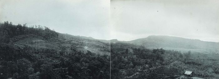 View over a valley and a plantation near Cibuni